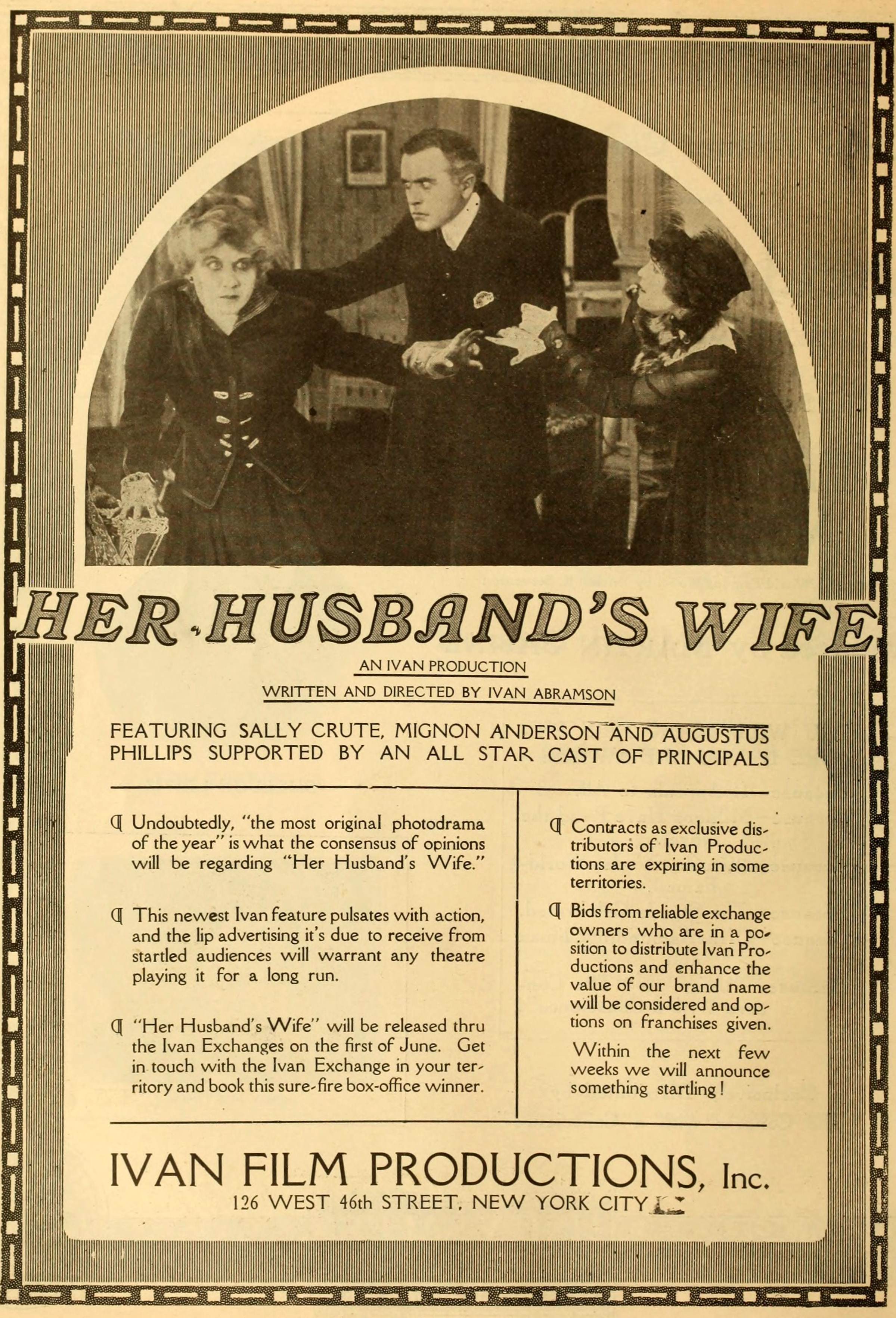 Advertisement in The Moving Picture World for Her Husband's Wife (1916) directed by Ivan Abramson. Noted that there was a second 1916 American film of the same name issued by Universal.